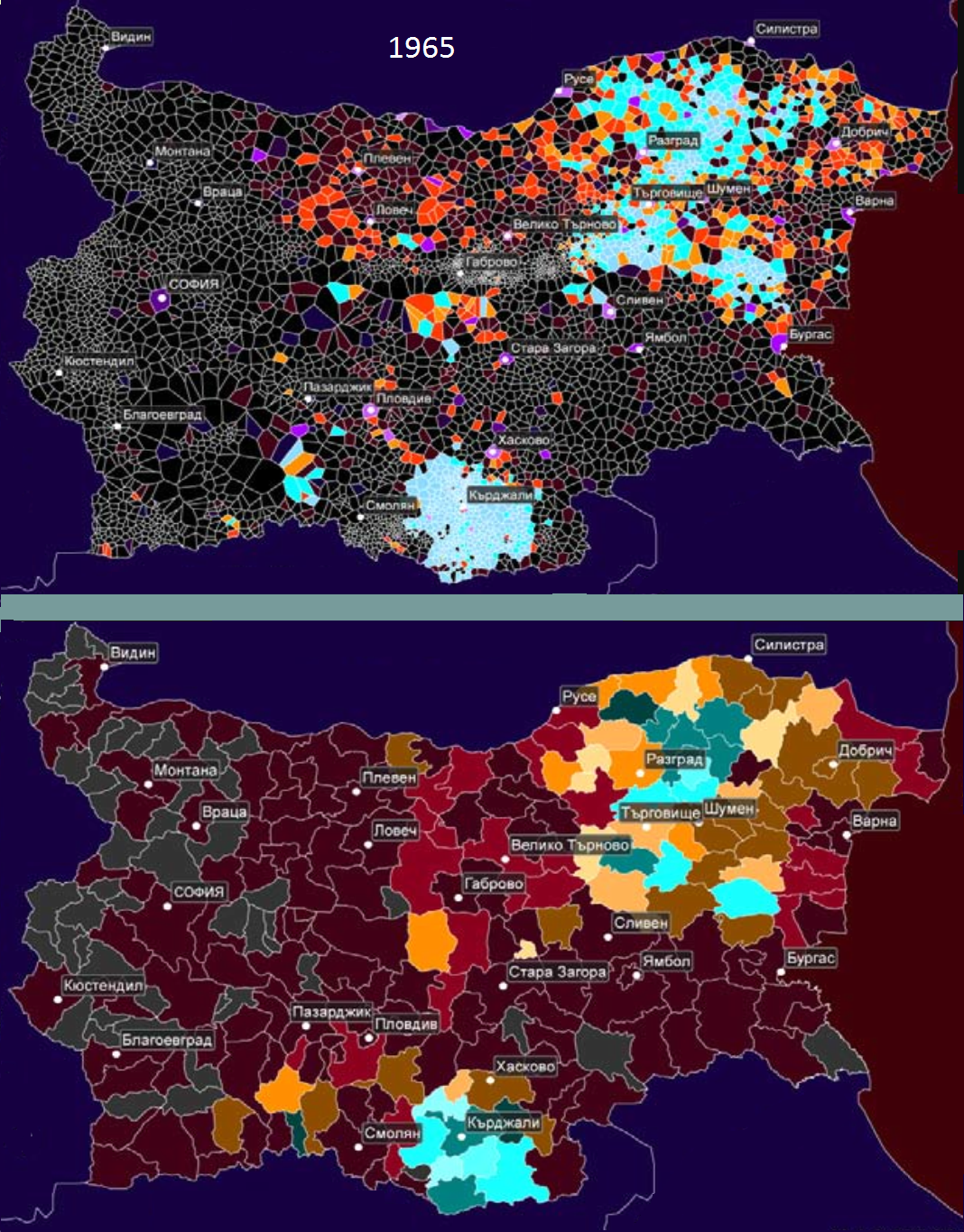 Distribution of the ethnic Turks in Bulgaria according to the 1965 census. Their frequency descends from blue color, to orange/red and purple and from their lighter to darker shades.